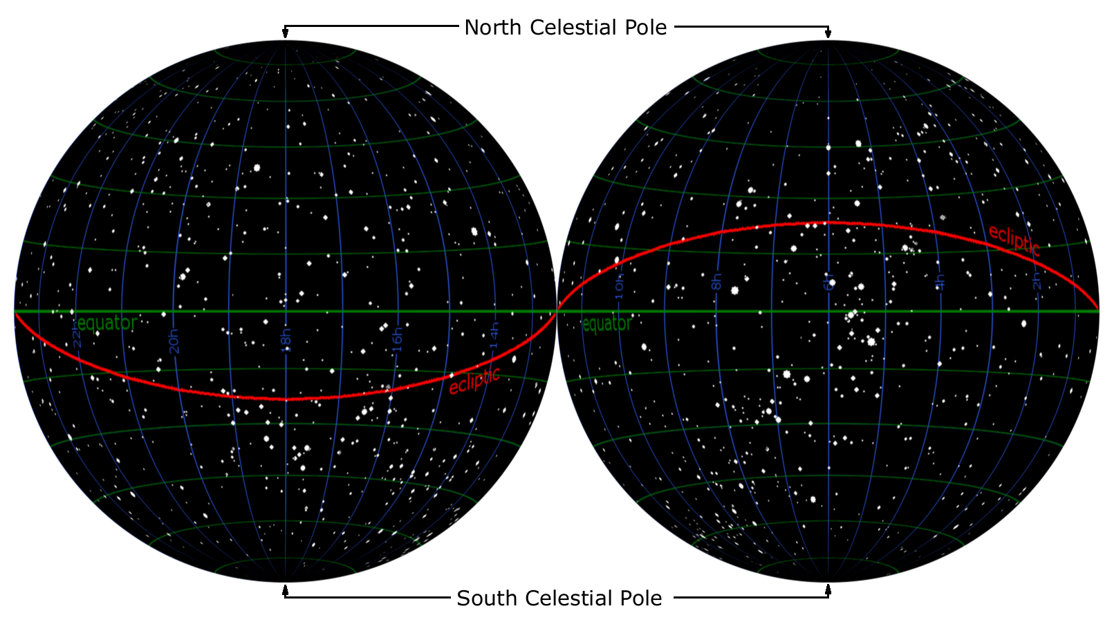 Diagram of the night sky, depicting stars, the ecliptic, the equator, and lines of right ascension and declination.